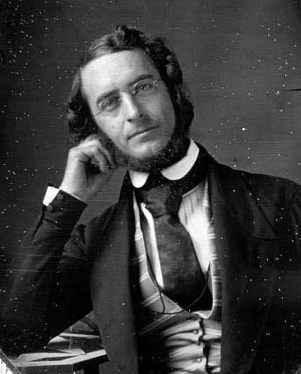 1845 photograph of the chemist James Curtis Booth (1810-1888)